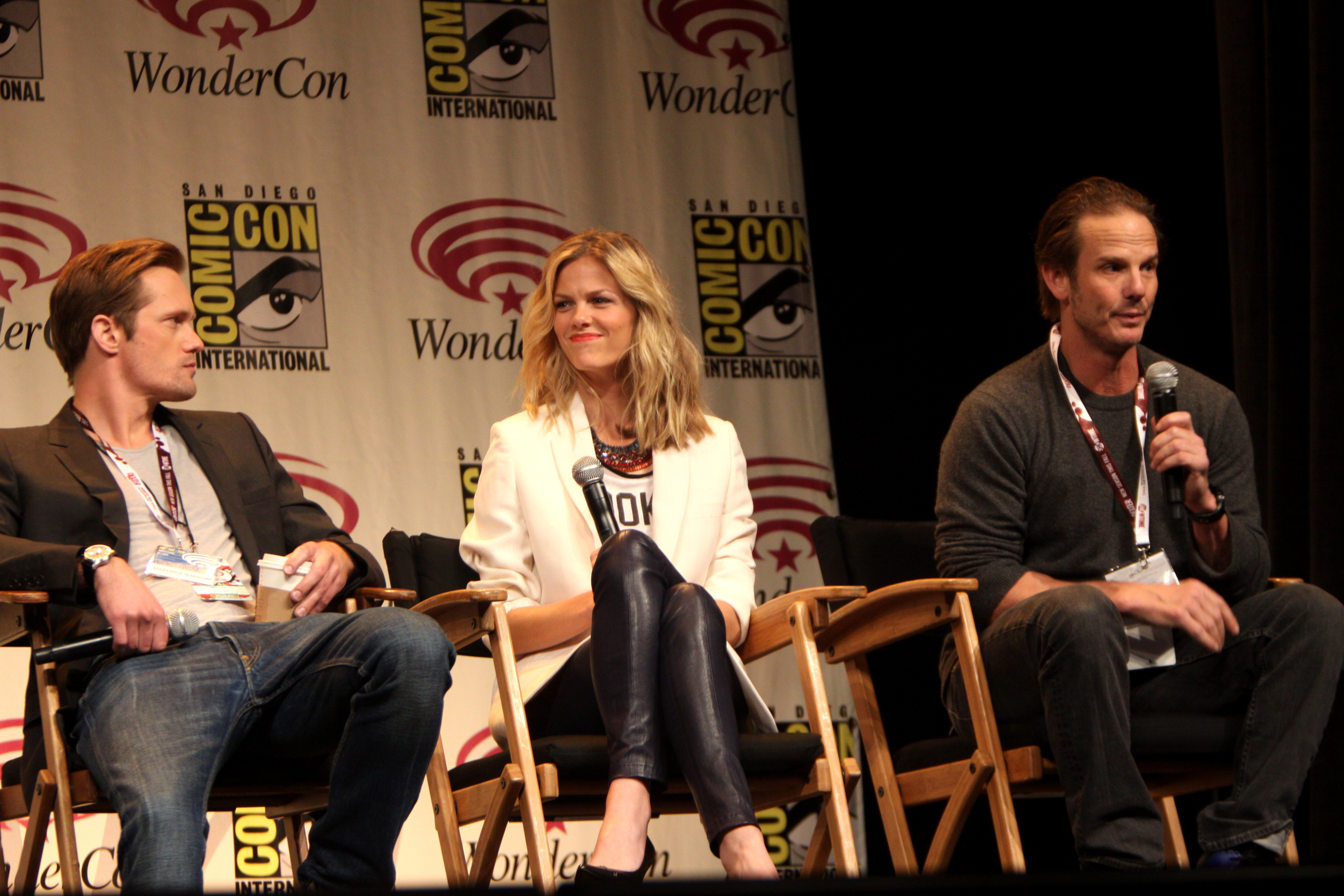 Alexander Skarsgard, Brooklyn Decker, and Peter Berg speaking at Wondercon 2012 in Anaheim, California on March 17, 2012.